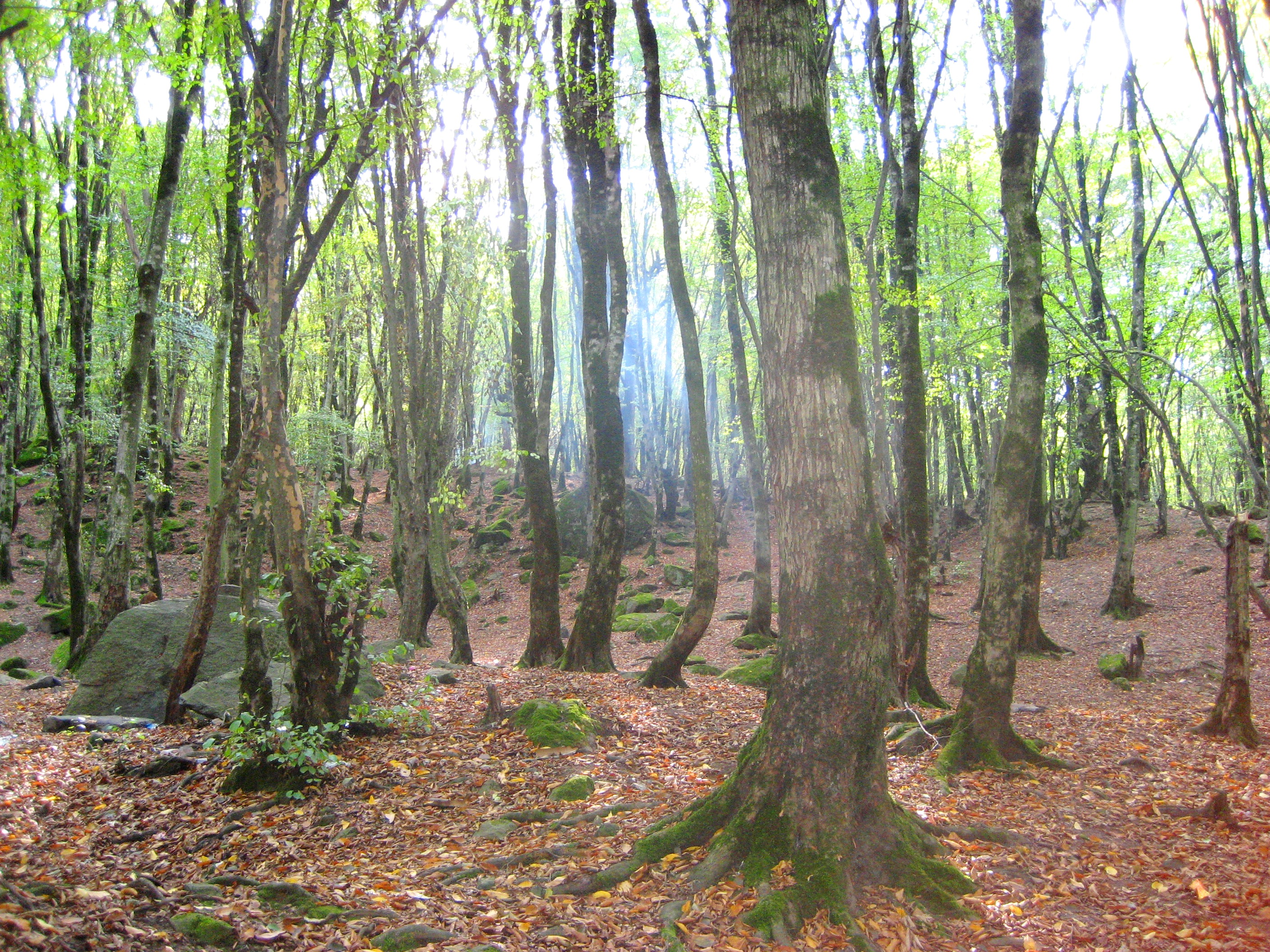 Alangdarreh Jungle, Nahar Khoran, city Gorgan, Northern Iran